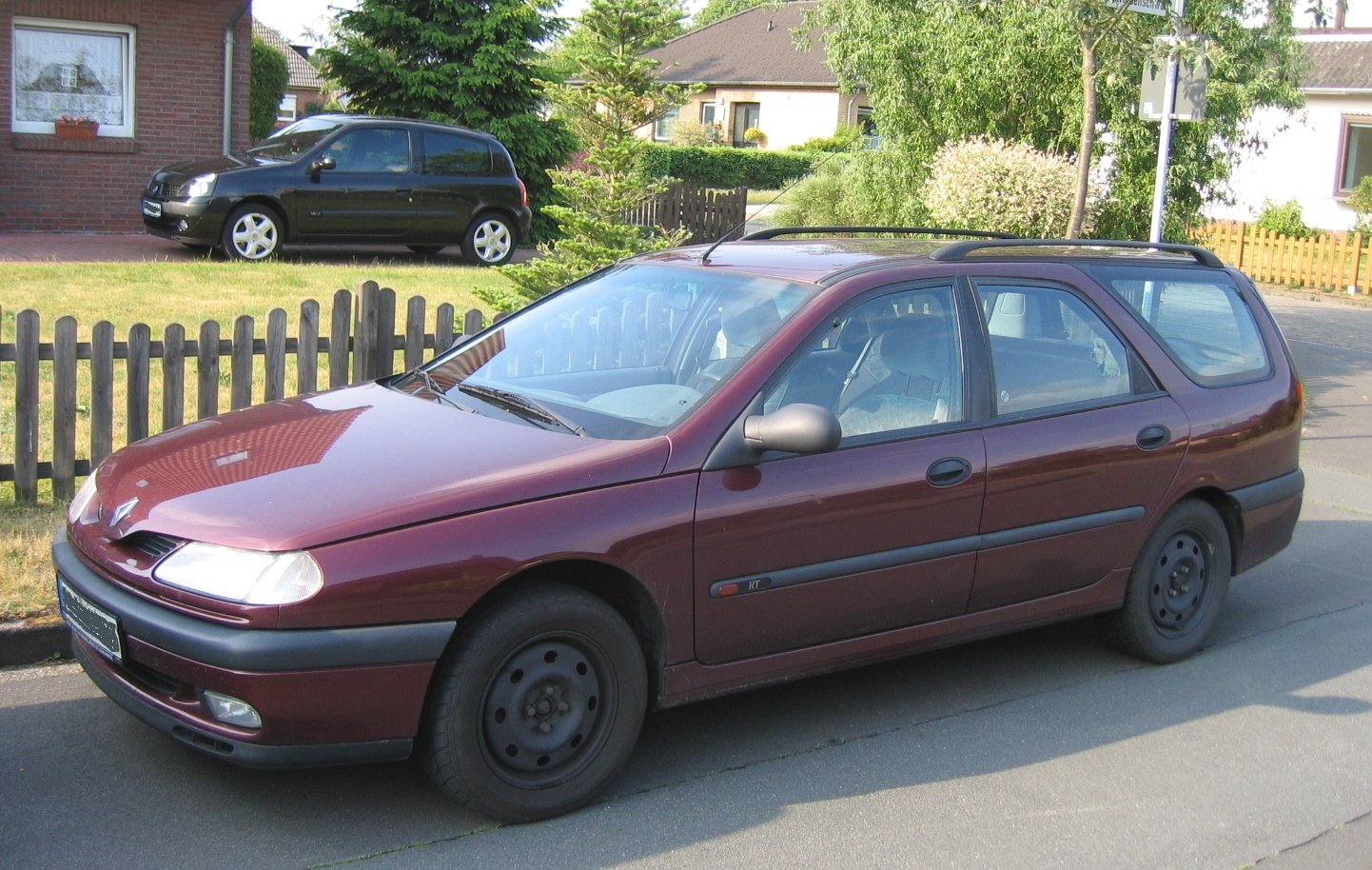 A 1996 Renault Laguna Grandtour (in the background: a Renault Clio) Photo taken by Michael Krahe, 2004-06-07. Licensed under the GFDL.